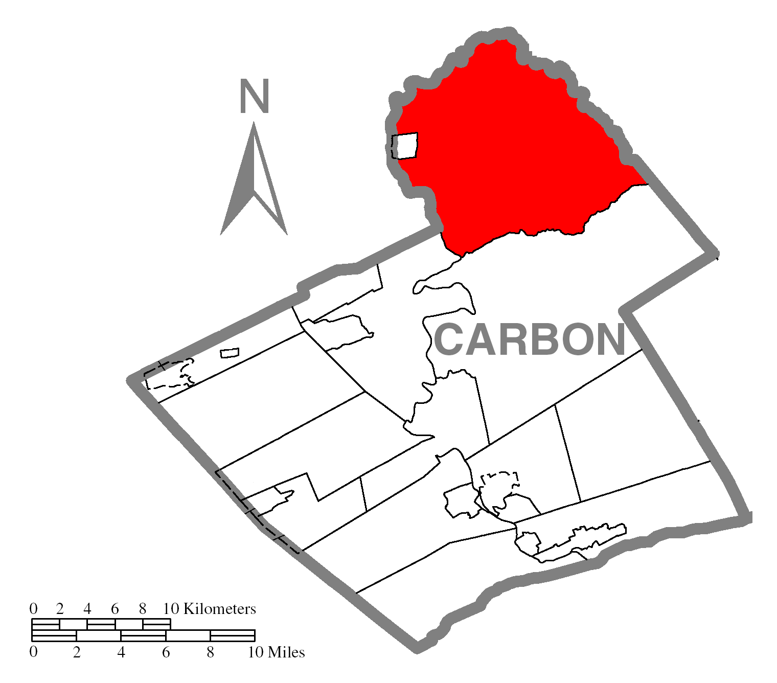 A map of Carbon County showing Kidder Township, Pennsylvania (alternate) highlighted on the map.